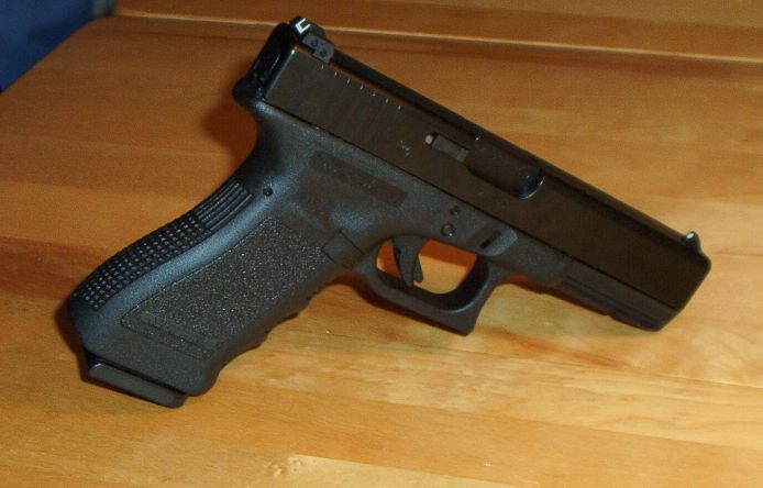 A Glock 17 handgun.